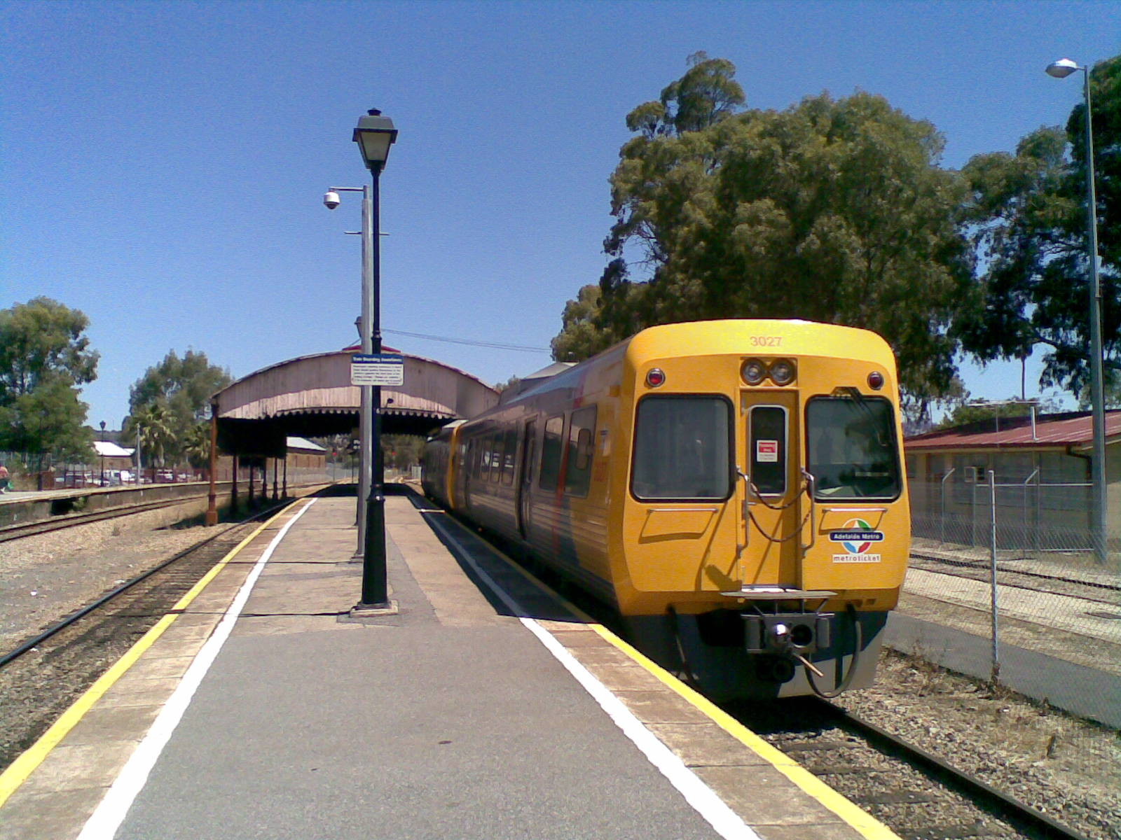 Gawler Railway Station in November 2007.